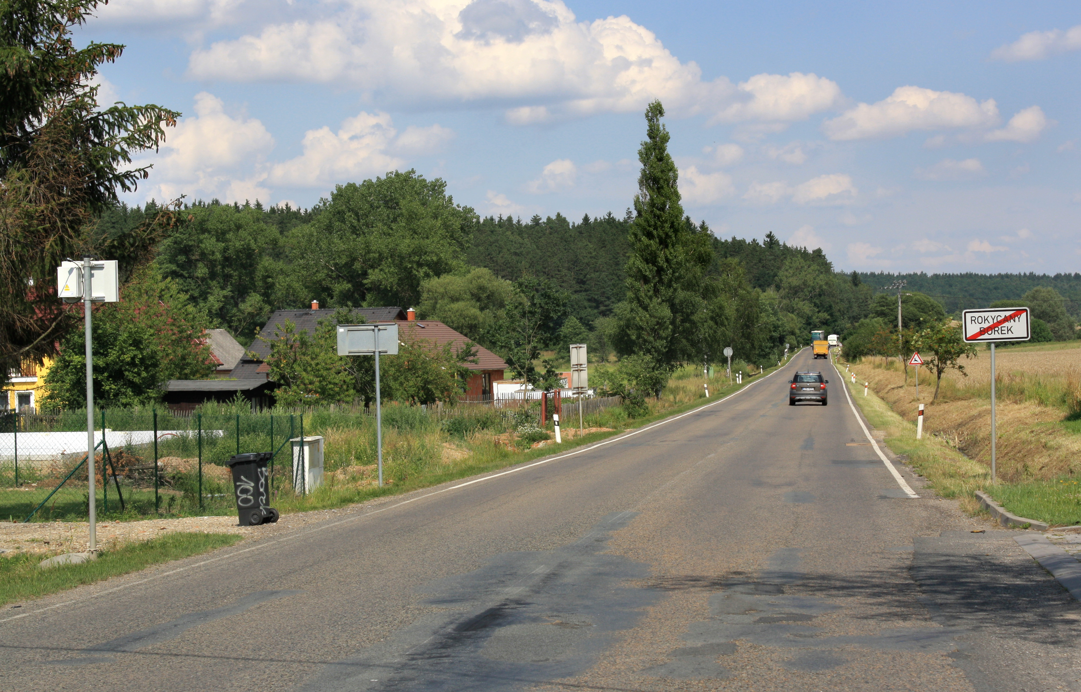 Pražská street in Borek, part of Rokycany, Czech Republic